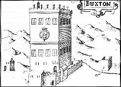 St. Anne's Well, Buxton, Derbyshire, England, from 1610 map.